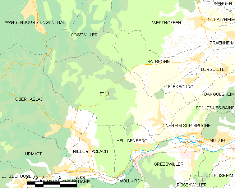 Map of French municipality